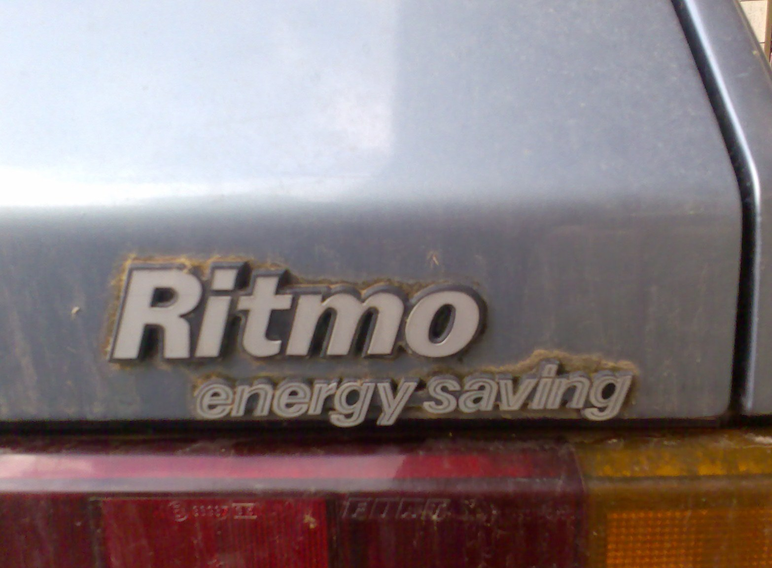 Fiat Ritmo Energy Saving